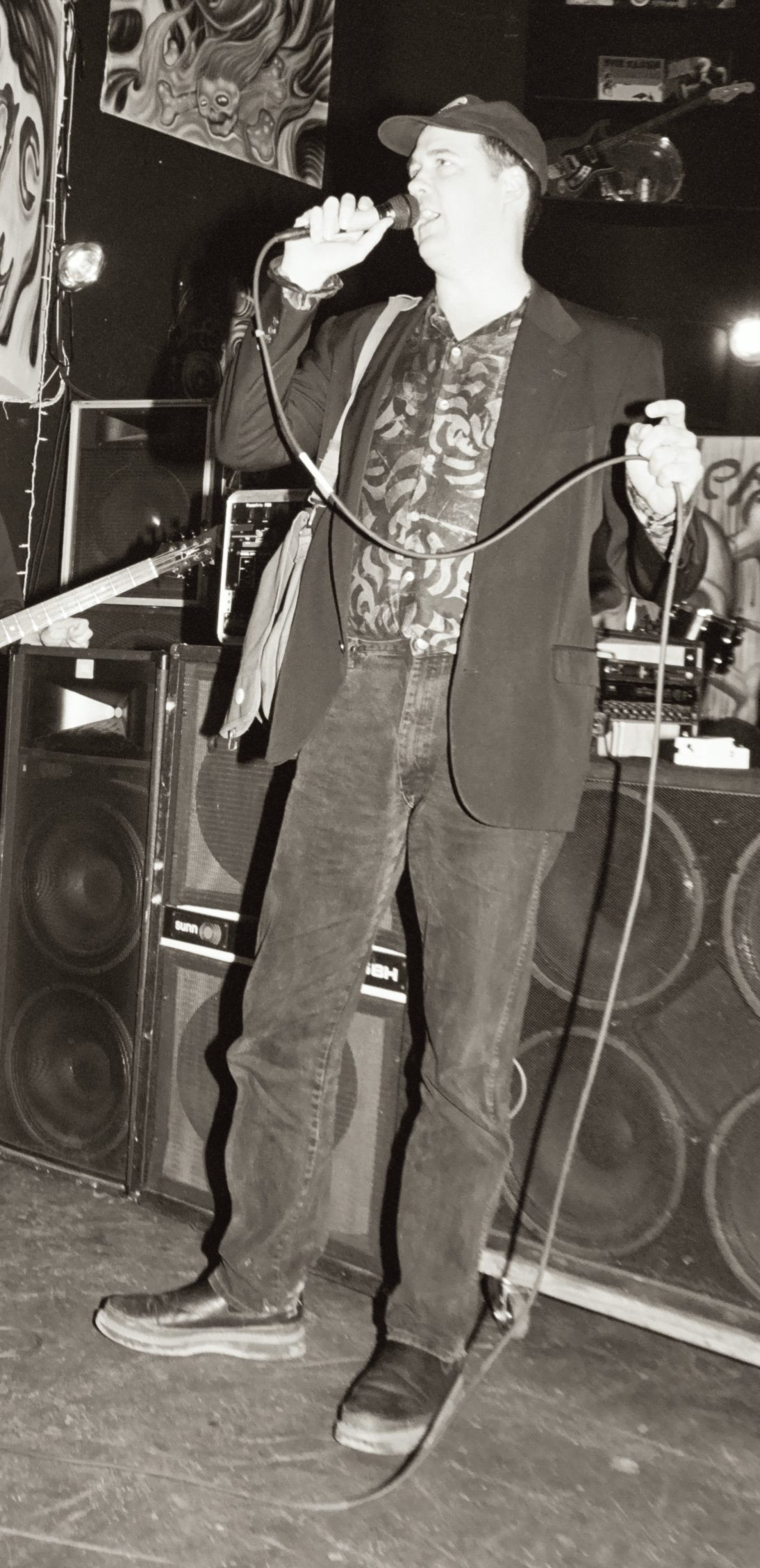 Krist Novoselic (former bassist of Nirvana) in Vancouver, Washington in 2004